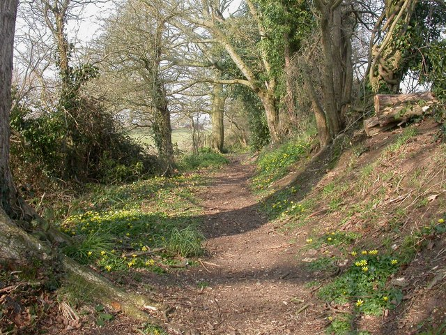 Burton, Avon Valley Path The section of the path between Burton & Winkton; yellow dots of lesser celandine show that spring has arrived